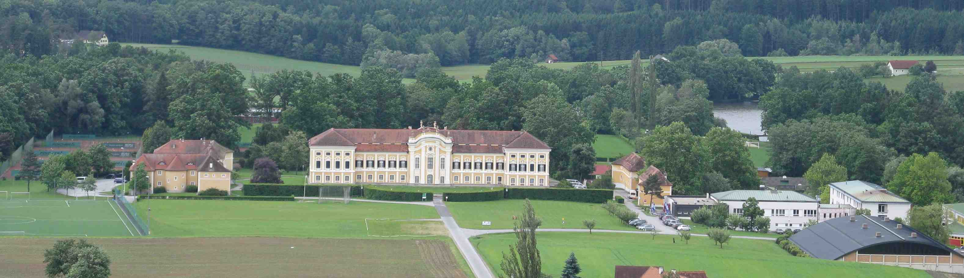 Bundesportschule Schielleiten - view from Altschielleiten